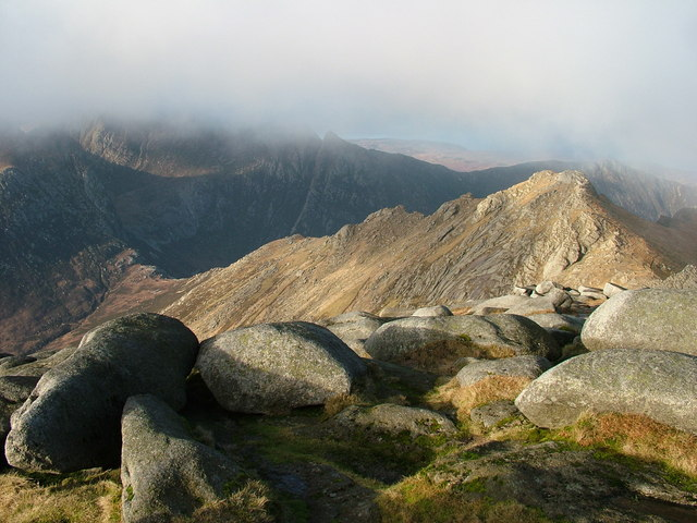 The ridge to North Goat Fell from the summit. The mist rolling in from the northern hills towards the summit of Goat Fell